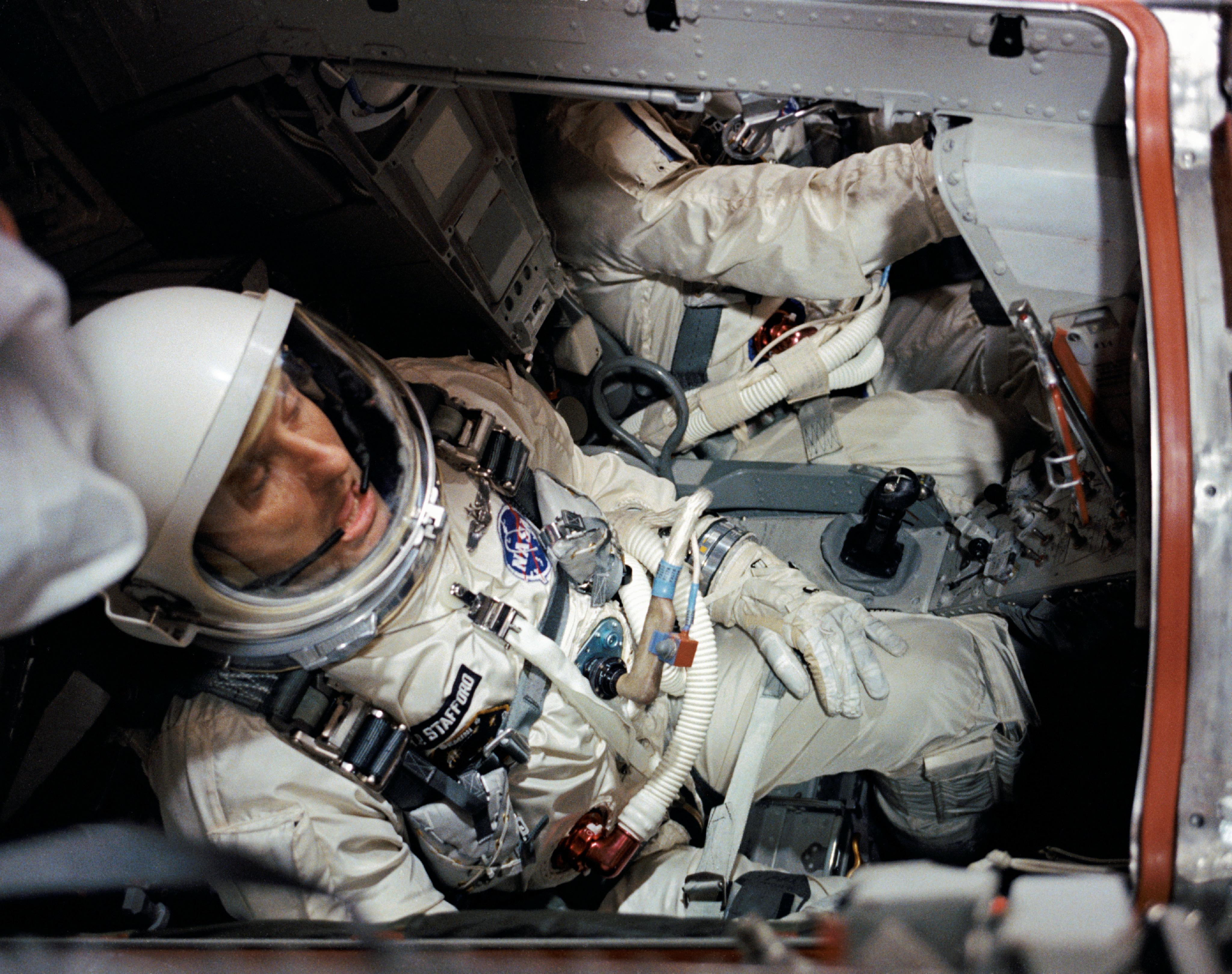 Astronaut Thomas P. Stafford, pilot, is seen in the Gemini VI spacecraft in the White Room atop Pad 19 before the closing of the hatches during the prelaunch countdown. In the background, partially out of view, is astronaut Walter M. "Wally" Schirra Jr., command pilot.